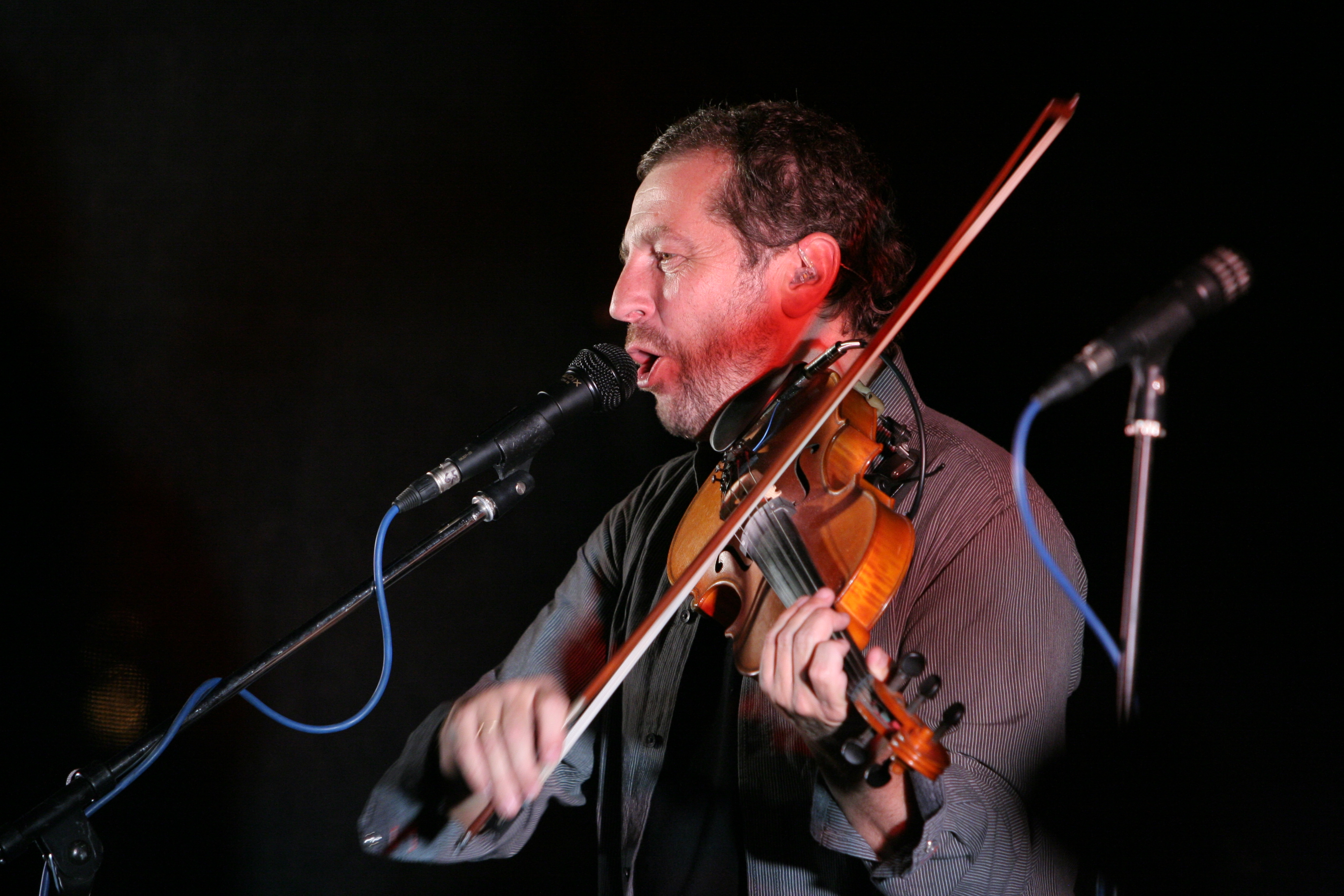 Karel Holas at Čechomor concert